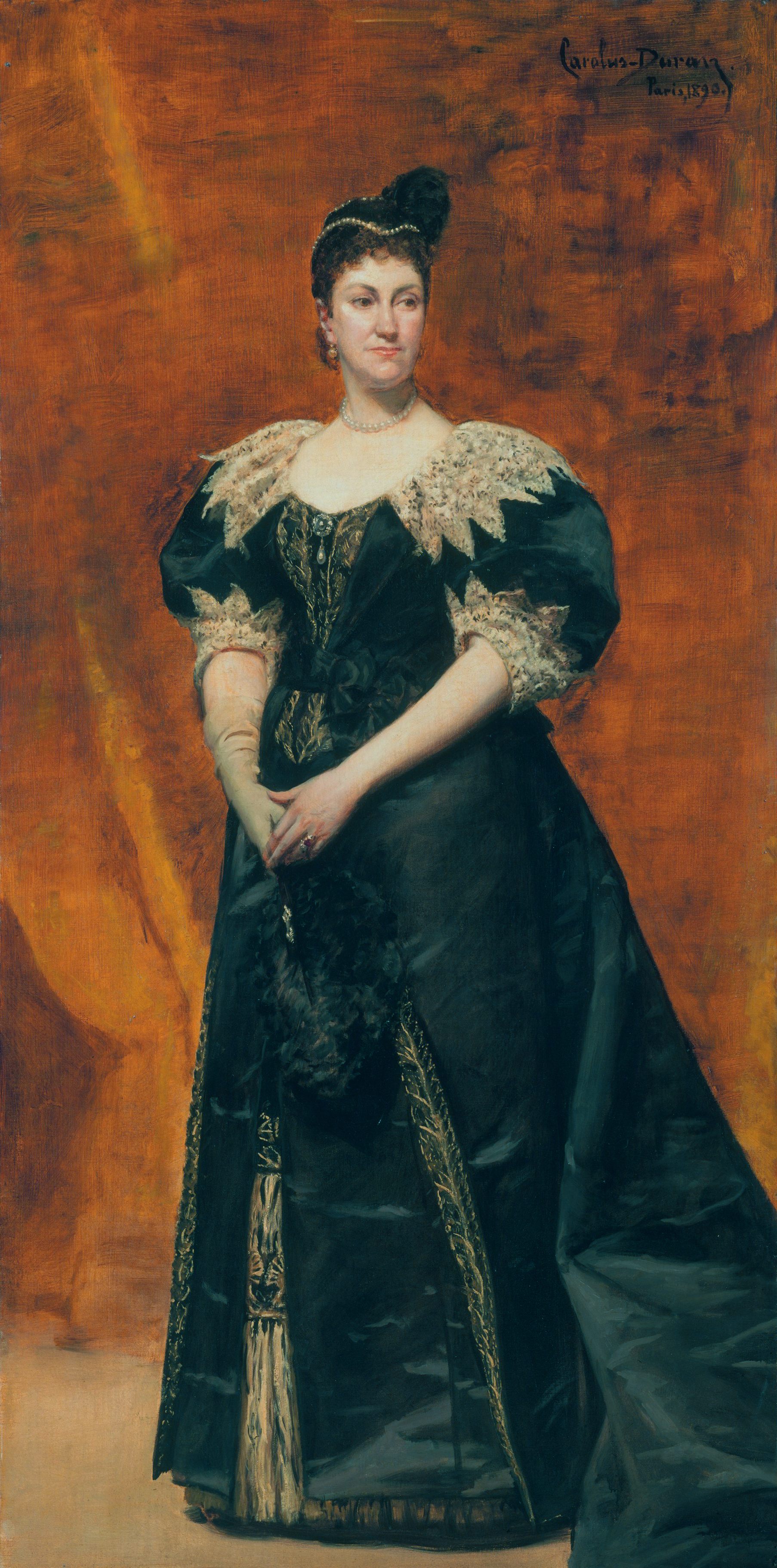 Mrs. William Astor (Caroline Webster Schermerhorn, 1831–1908) oil on canvas 212.1 x 107.3 cm signed t.r.: Carolus-Duran / Paris, 1890